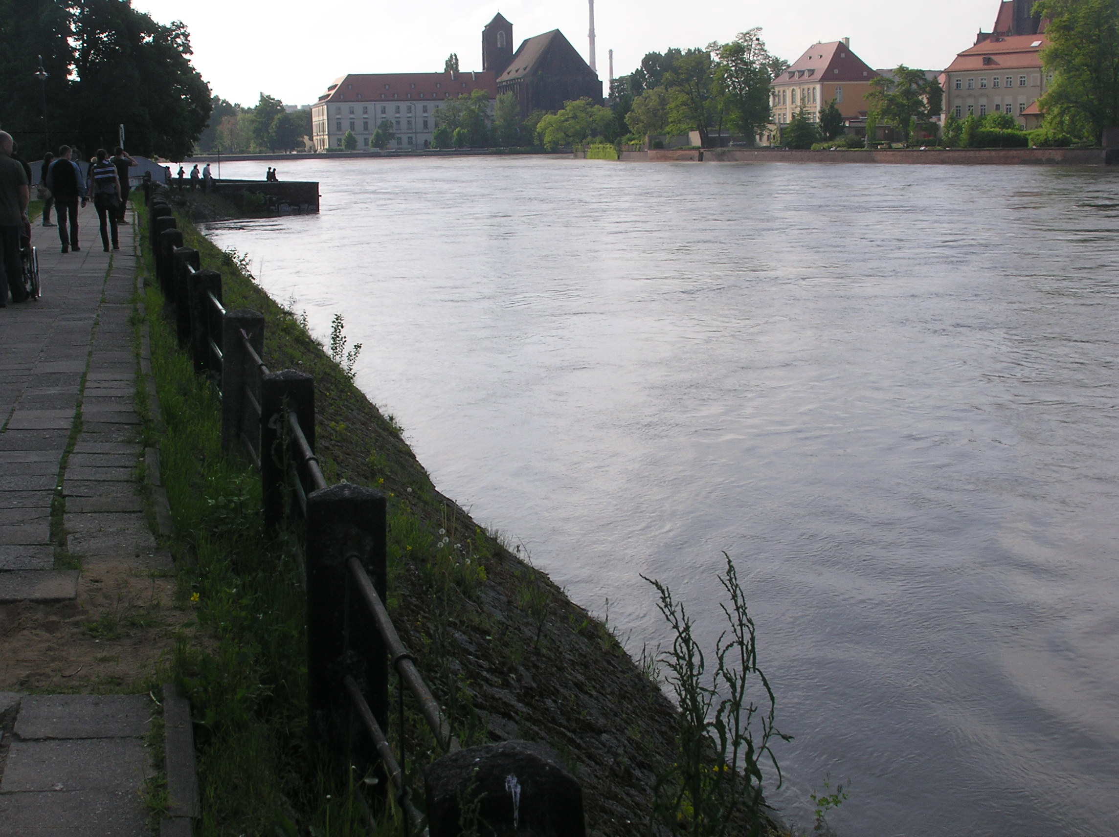 Wrocław, Xawerego Dunikowskiego Boulevard, Piasek Island and Ostrów Tumski